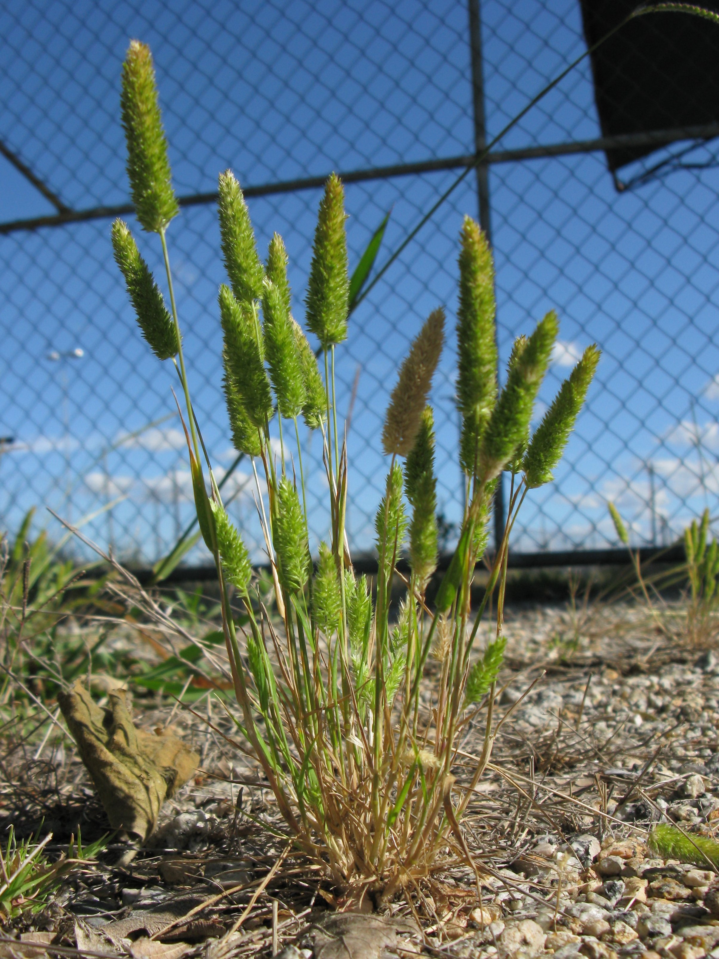 Introduced, cool-season, annual, slender, tufted grass to 60 cm tall, but often less than 15 cm. Leaves are hairless to softly-hairy and flat. Flowerheads are contracted panicles; 1.5-6 cm long and oblong to ovate. A native of the Mediterranean, it is found in disturbed areas (e.g. roadsides and around habitation) and on near-coastal sands, and swamp and lake margins; more common in the south of the region.